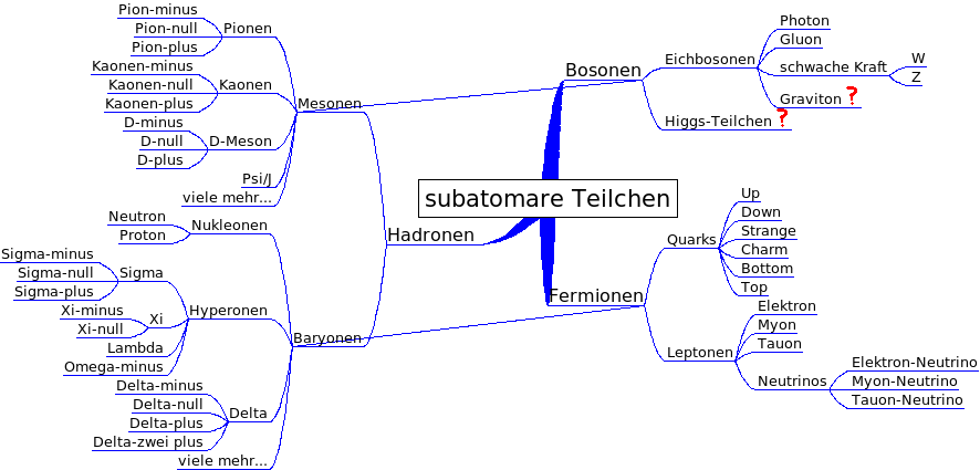 A mindmap which is showing the classifications of all (important) subatomic particles.